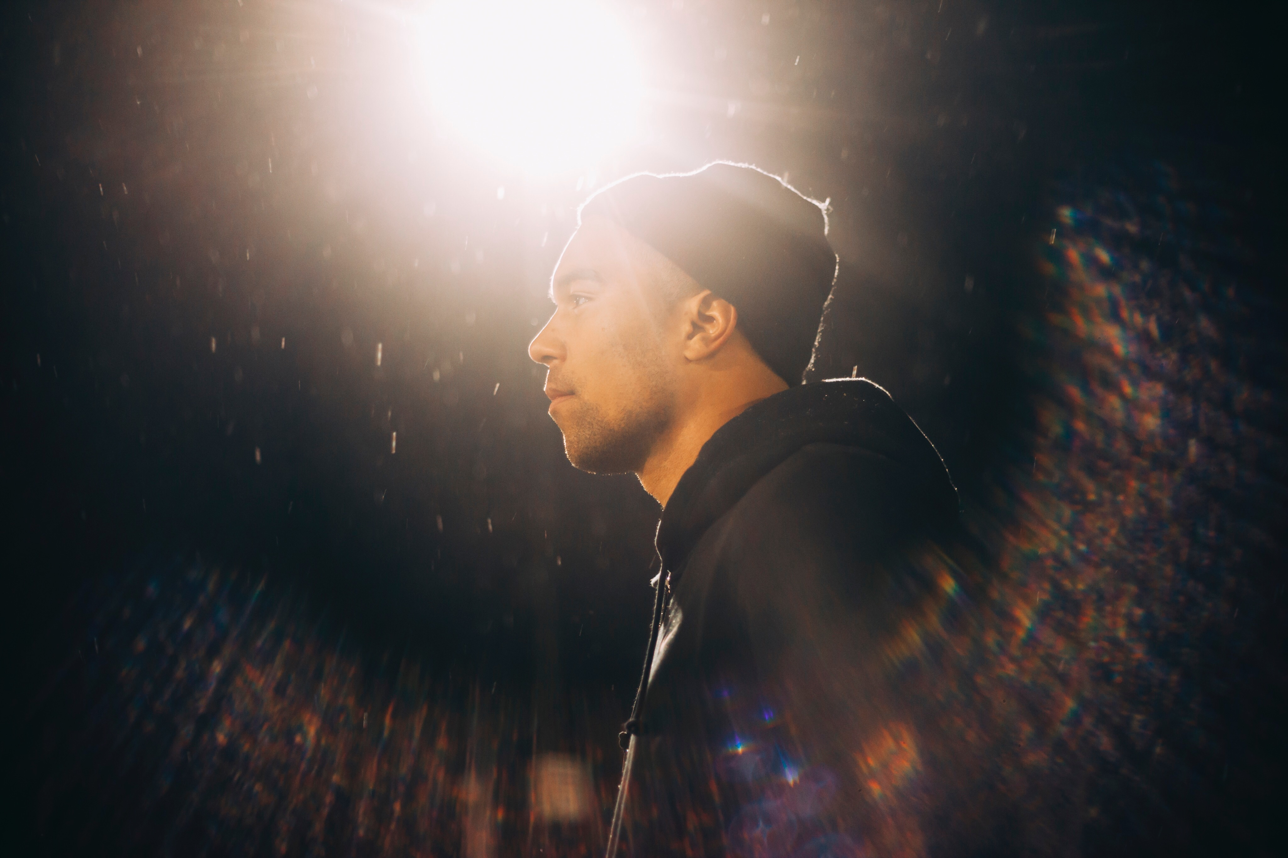 James The Mormon. Photo by Sam Wilder